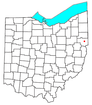 Locator map of the unincorporated community of Elkton in Columbiana County, Ohio, United States.